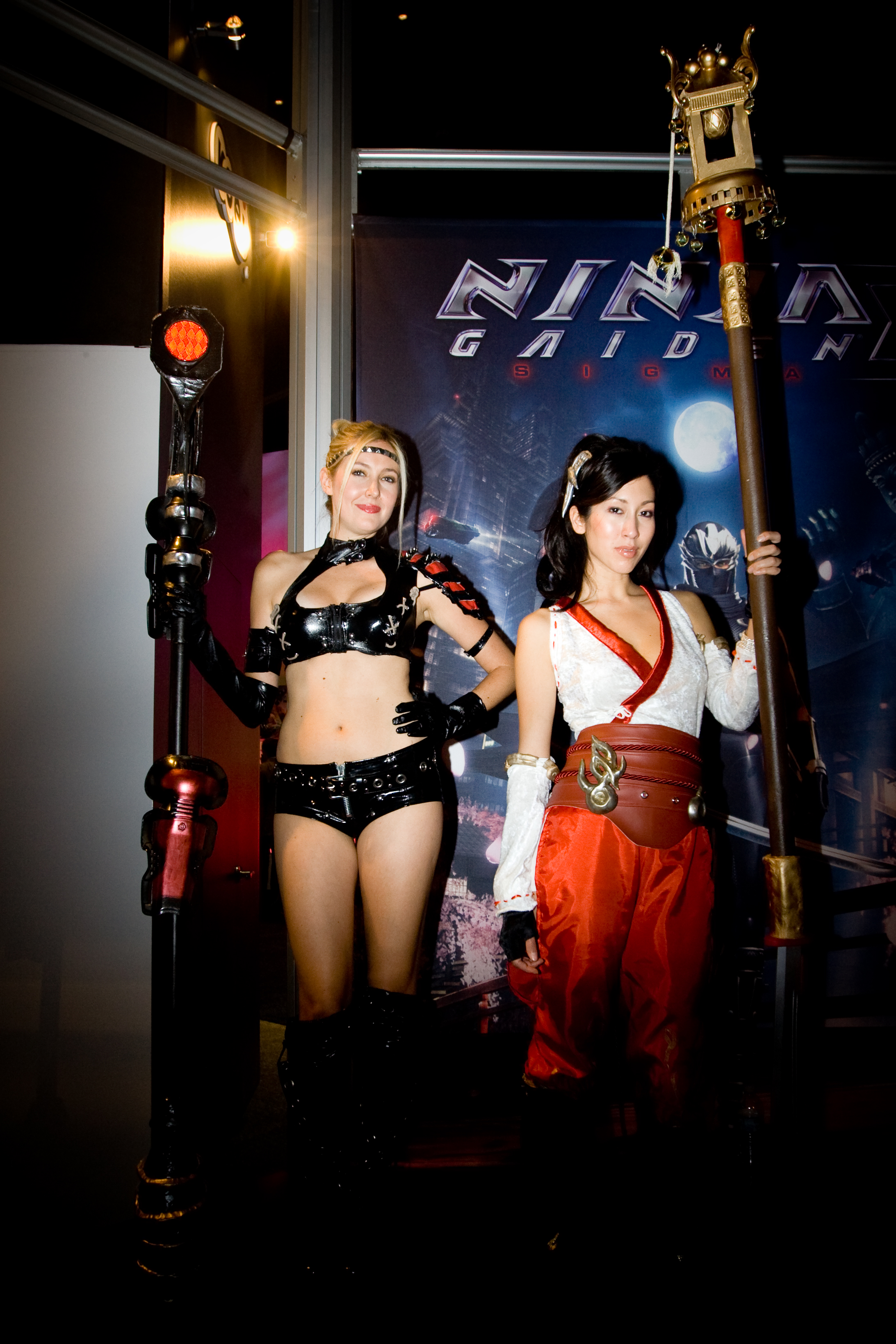 Offiical cosplayers of the Ninja Gaiden Sigma 2 characters for Tecmo Koei.